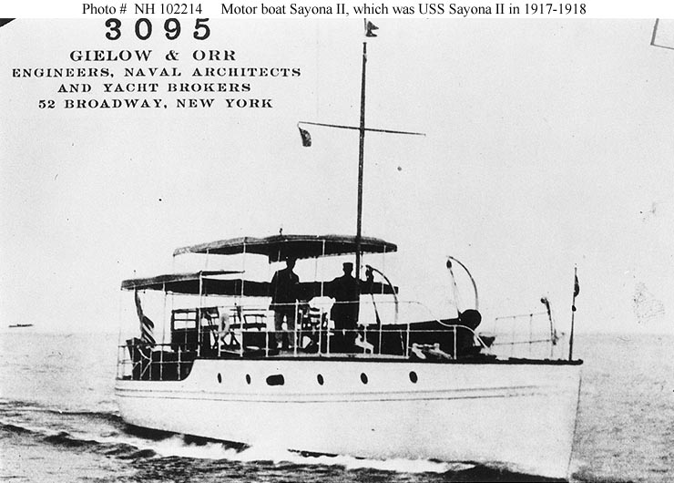 The motorboat or motor yacht Sayona II prior to her United States Navy service as the patrol vessel .